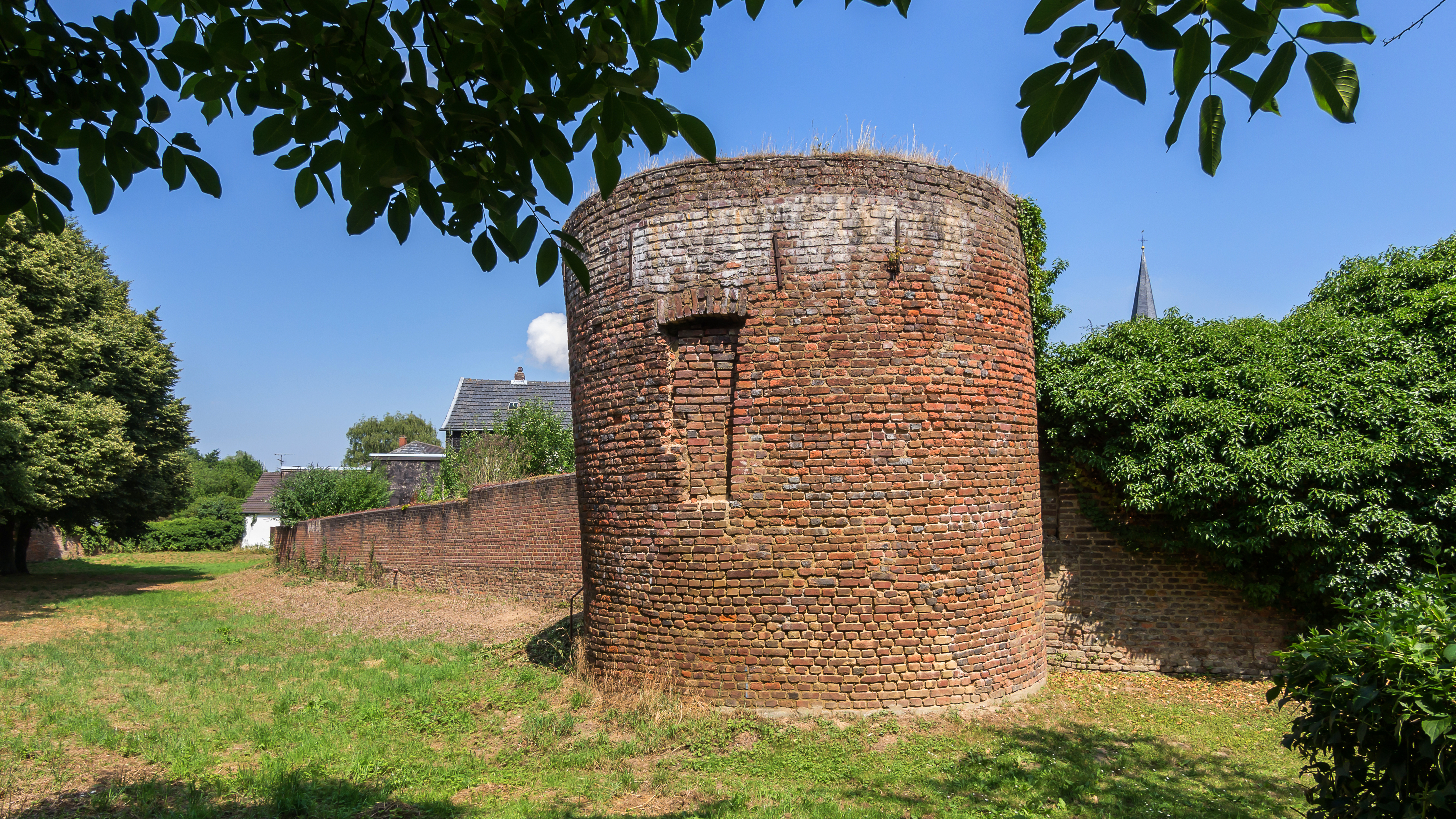 Kaster - Westliche Stadtmauer IV